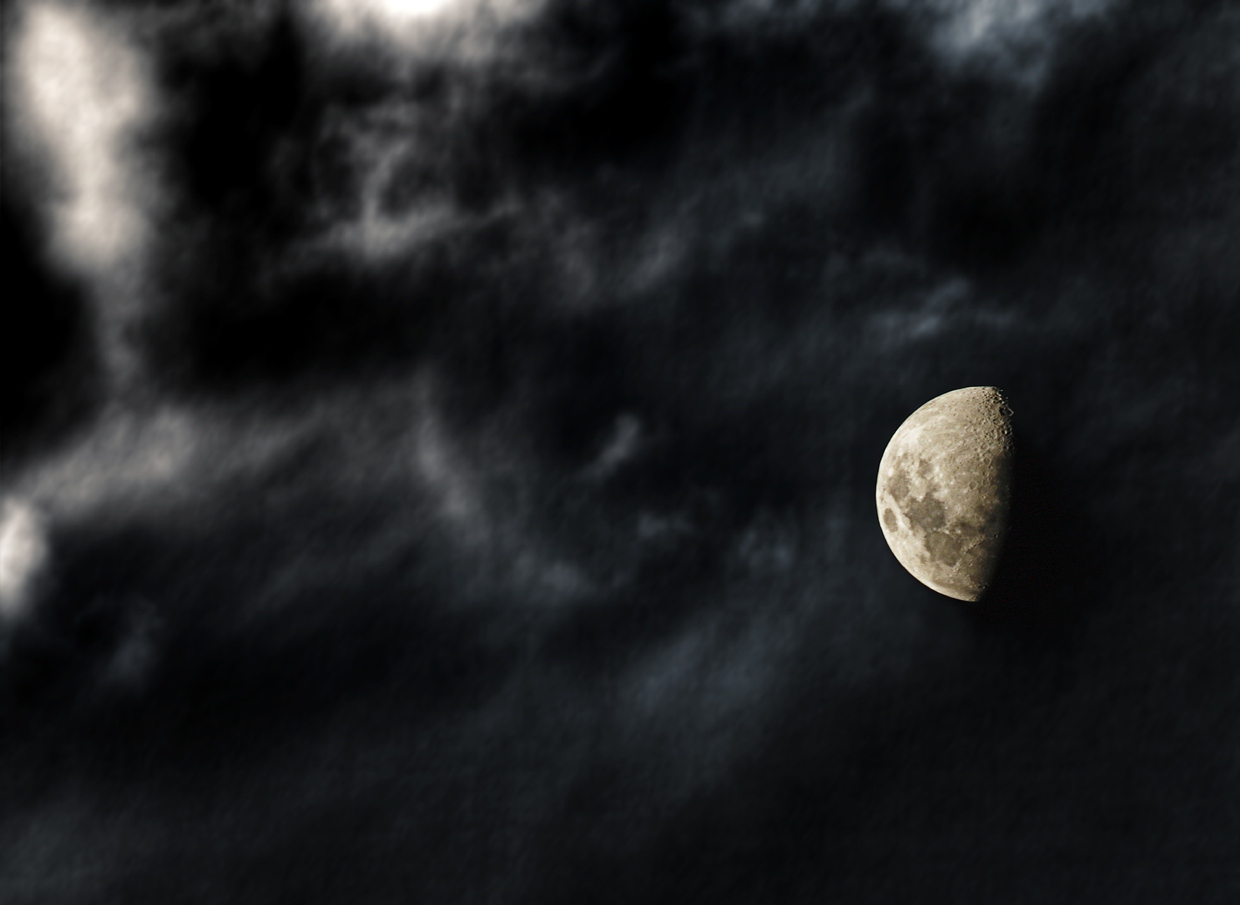 What do you call the mouse shadow on the second moon? - We call that one, Muad'Dib Dune - Frank Herbert View On Black